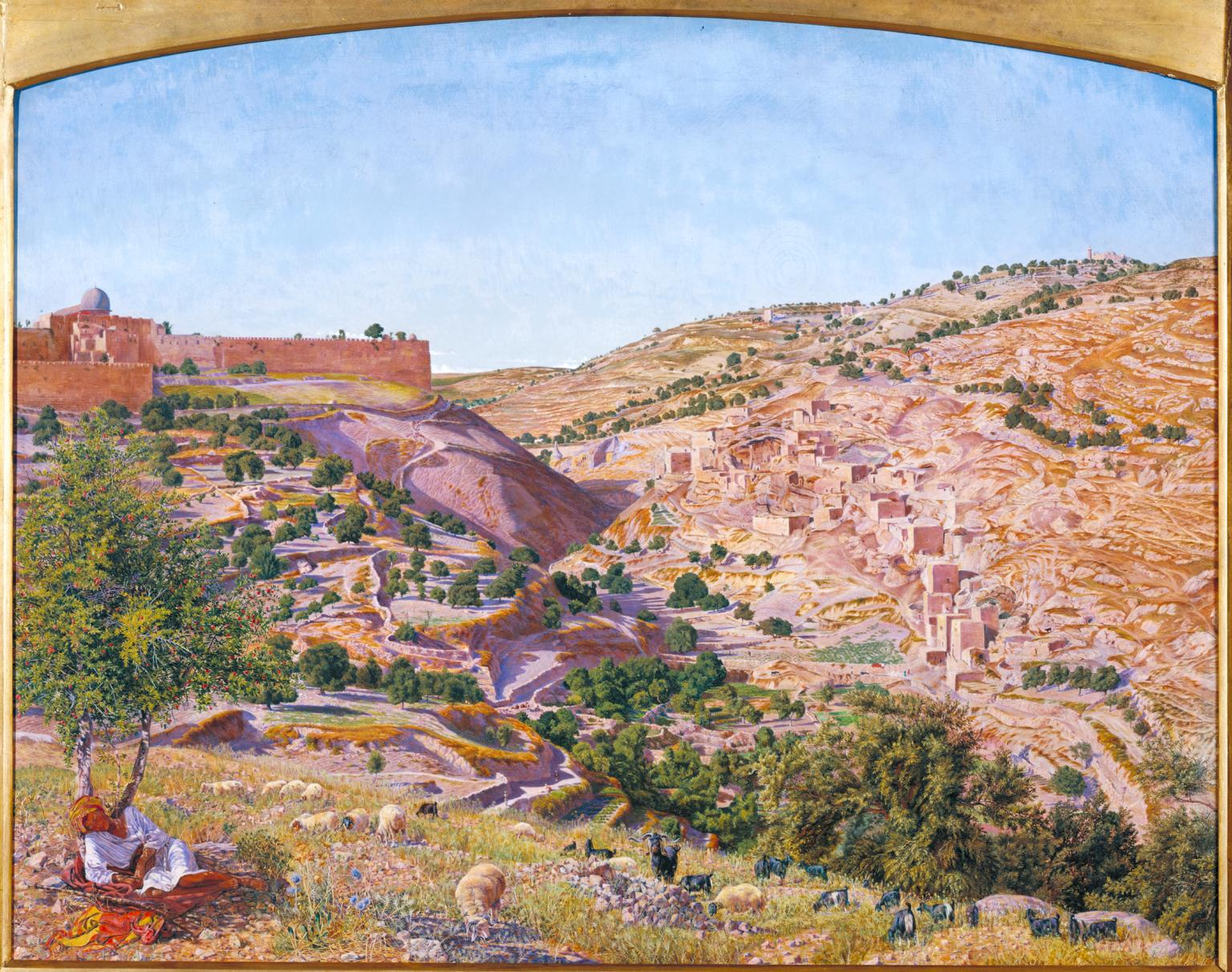 Jerusalem and the Valley of Jehoshaphat from the Hill of Evil Counsel